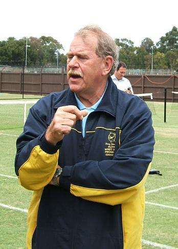 Terry Jenner in the nets at Adelaide Oval